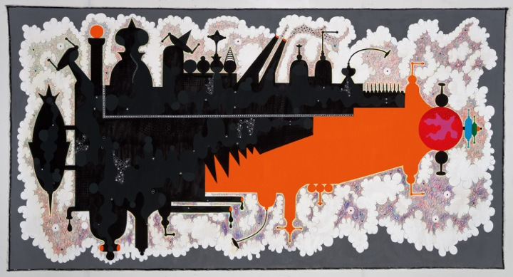 84 x 158 inches, acrylic, colored pencils on canvas